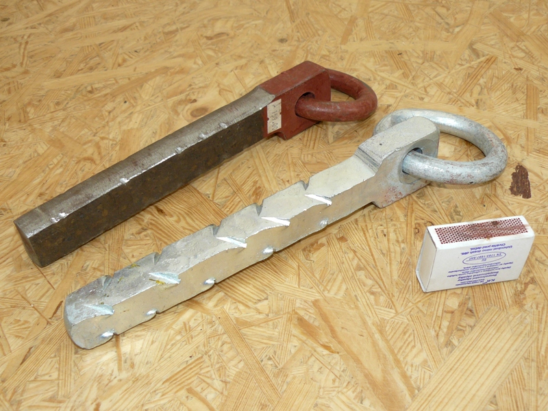 sandstone "rings" Česky: pískovcové kruhy